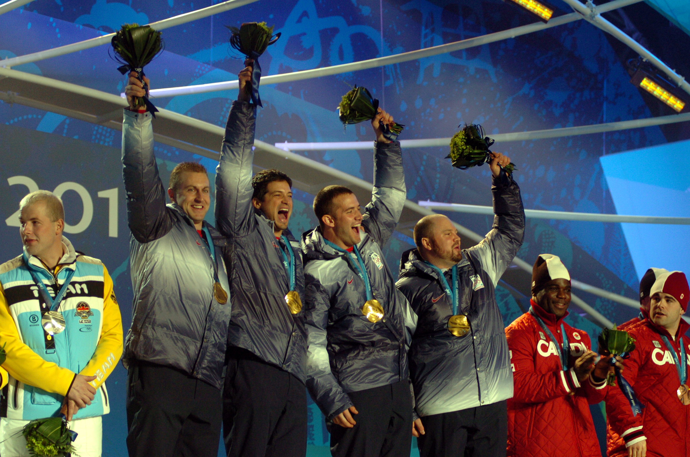 Team USA I four-man bobsled Olympic gold medalists Curtis Tomasevicz, Steve Mesler, Sgt. Justin Olsen of the U.S. Army World Class Athlete Program and former WCAP bobsledder Steven Holcomb salute their gold-medal performance during the medal ceremony at Whistler Medals Plaza on Saturday night at the 2010 Olympic Winter Games. U.S. Army photo by Tim Hipps, IMCOM Public Affairs